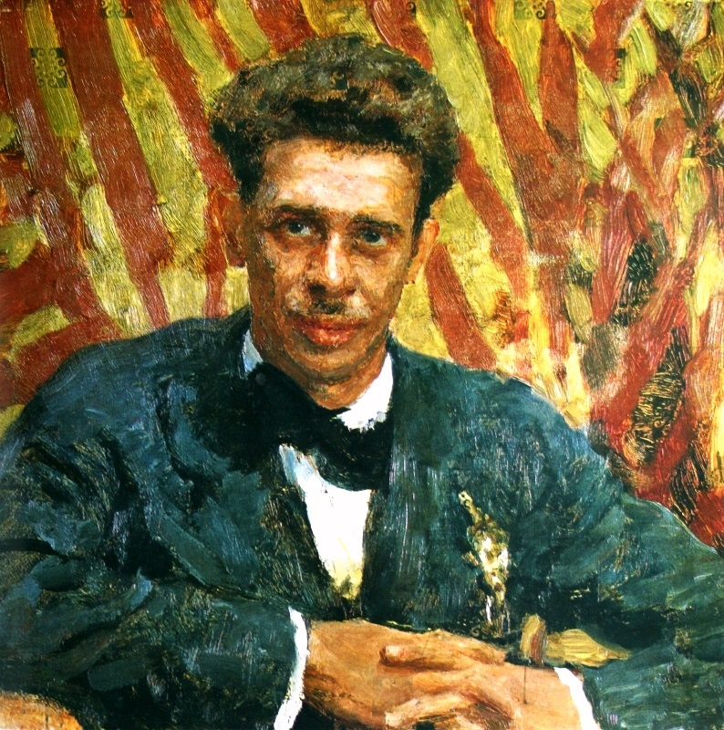 Portrait of sketcher, painter and theatre scenographer Nikolai Vladimirovich Remizov (Re-Mi)